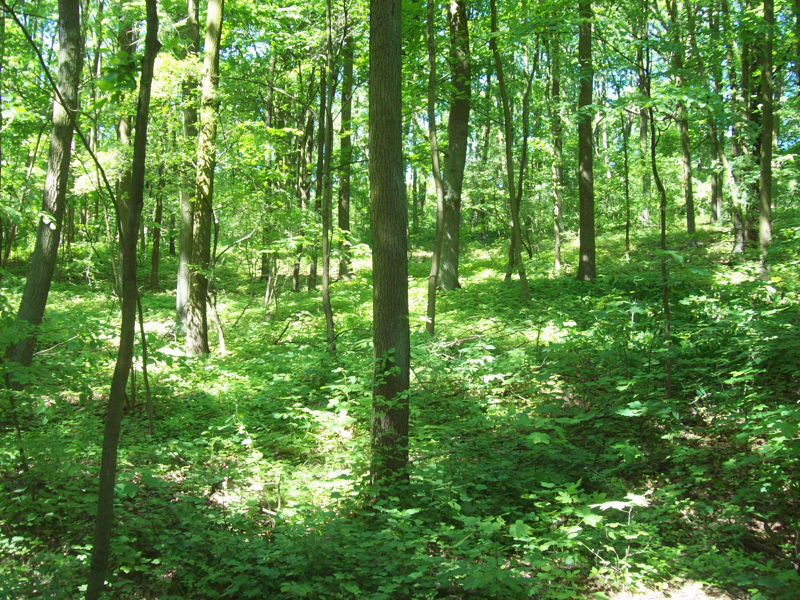 Wielkopolska National Park in the summer, Puszczykowo Mountains reservation